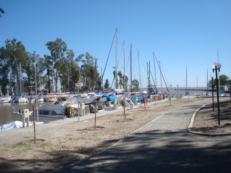 The Yachting Harbour of Nueva Palmira, Colonia Department, Uruguay.